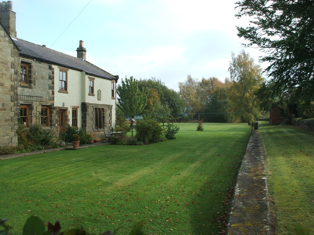 Ingleby railway station (site)Opened in 1857 by the North Eastern Railway, this station on the former line from Picton to Battersby closed in 1952 to passengers, and completely in 1954. View east from the former level crossing. The Picton-bound platform still survives.